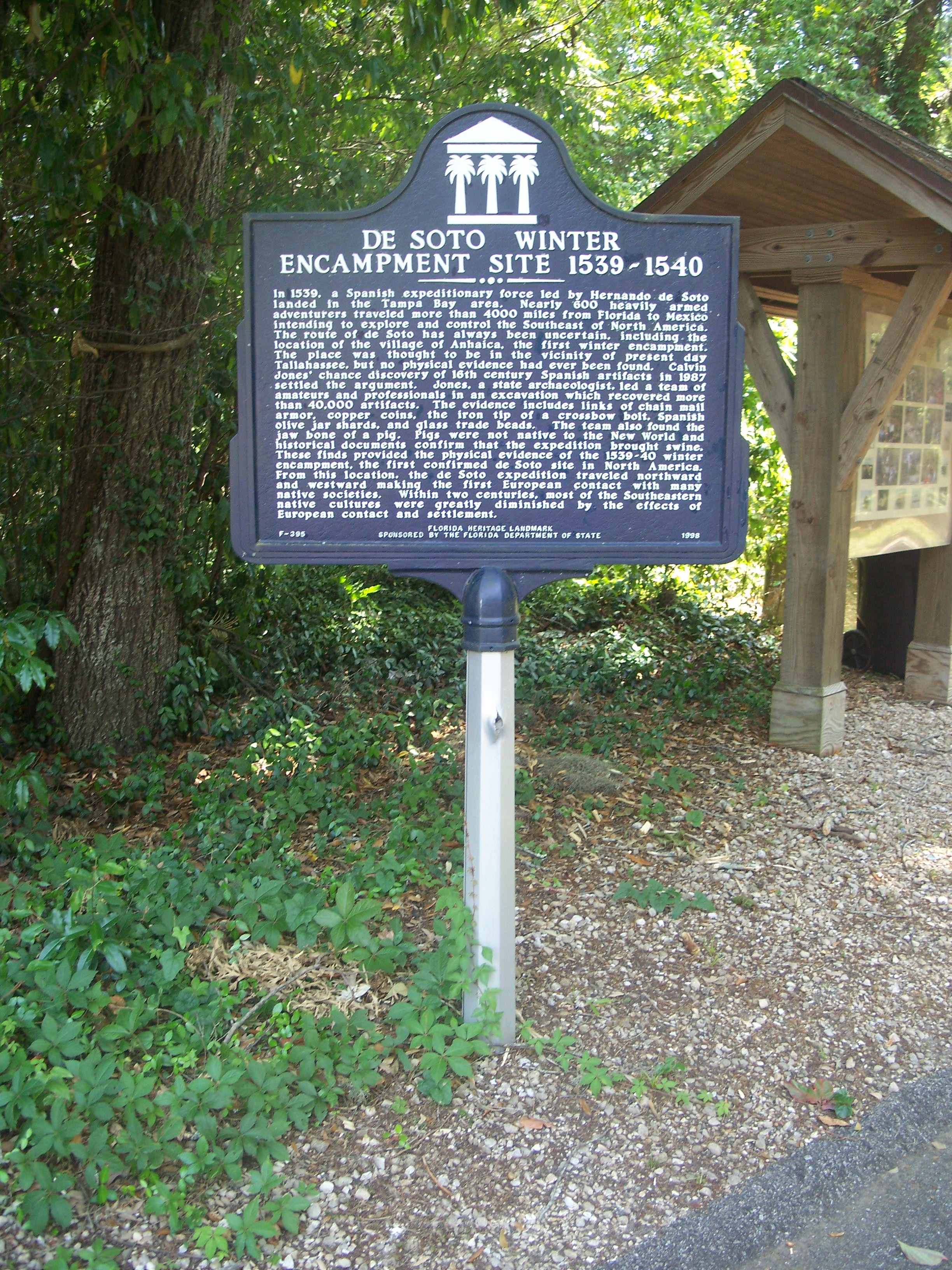 Tallahassee, Florida: DeSoto Site Historic State Park